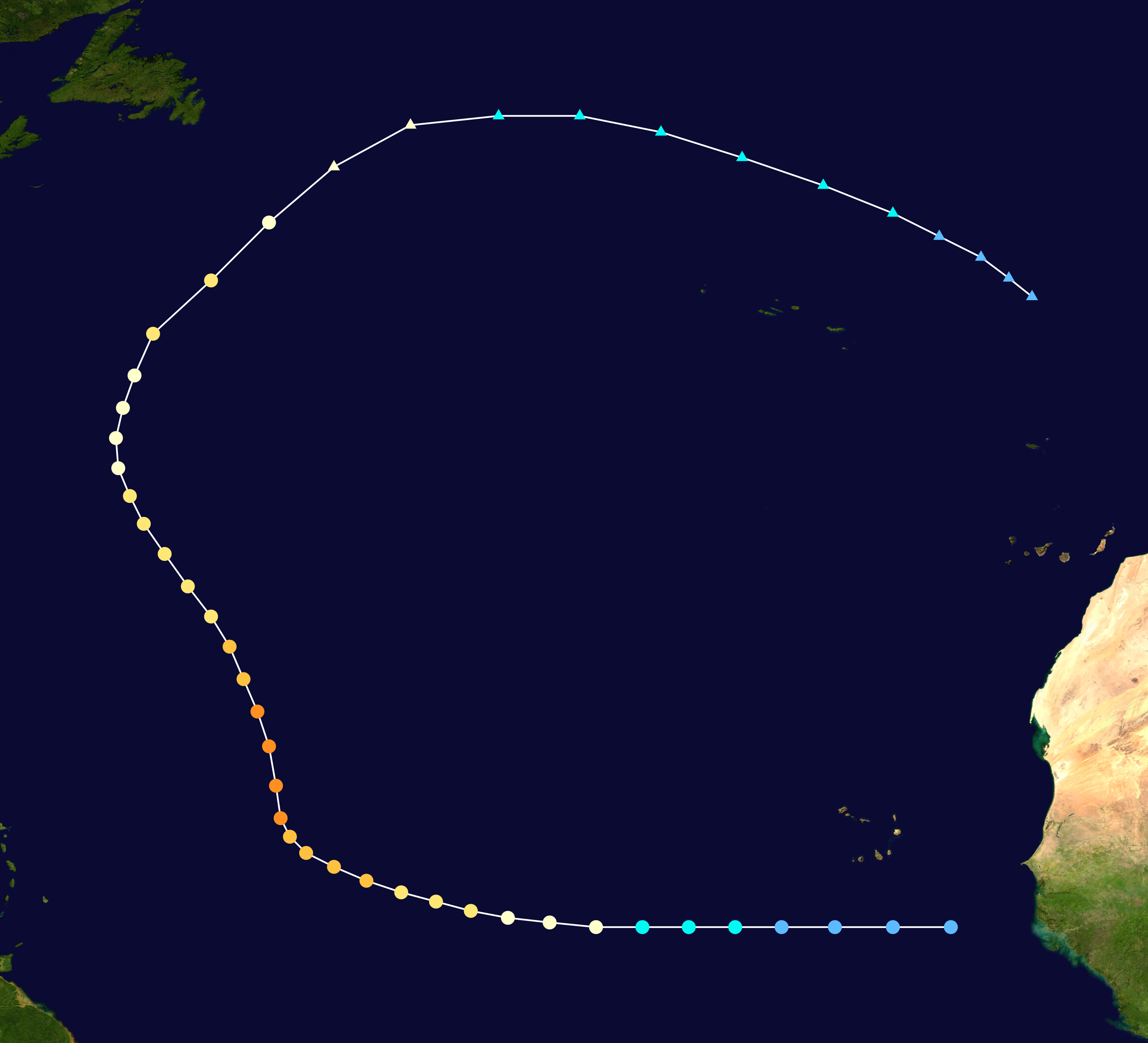 Hurricane Cleo (1958) track. Uses the color scheme from the Saffir-Simpson Hurricane Scale.